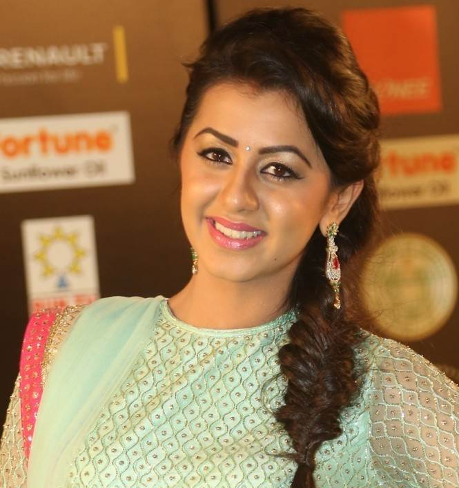 Nikki Galrani at the 1st IIFA Utsavam Awards in 2016.